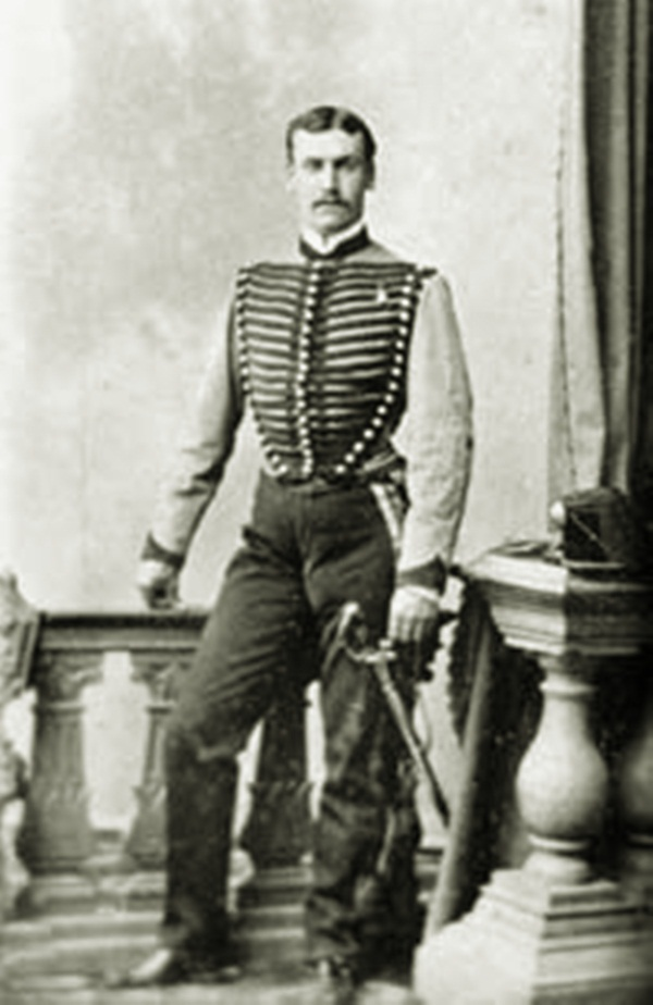 Portrait of Prince Achille Murat (1847–1895), son of Prince Lucien Murat